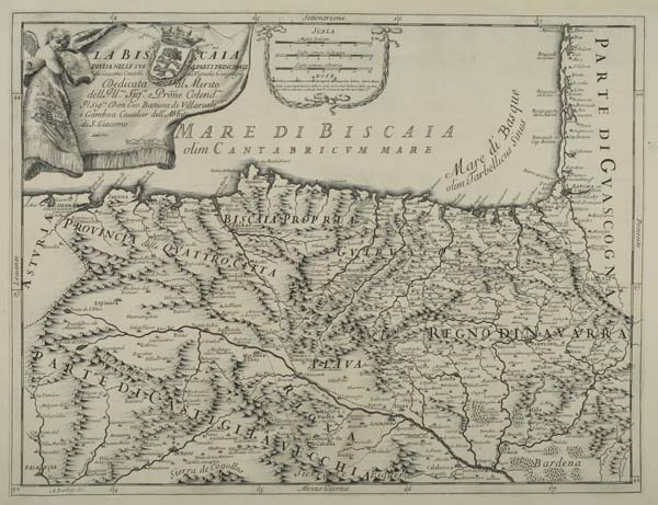 Map of northern Spain gathered by the cartographer Giacomo Cantelli da Vignola in the Mercurio Geografico Atlas where the territories of Biscaia (Biscay), Gvipvzcoa (Guipuzcoa), Alava (Alava), Regno di Navarra (Navarra), Rioxa (La Rioja (Spain)), Provincia delle Qvattro Citta (Cantabria) and Parte de Castiglia Vecchia (North of Old Castile are shown.